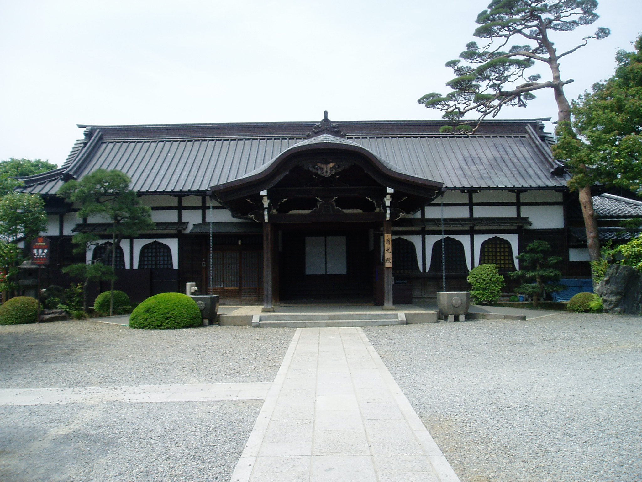 Gekkōden at Gokoku-ji Temple in Otsuka, Tokyo, Japan.